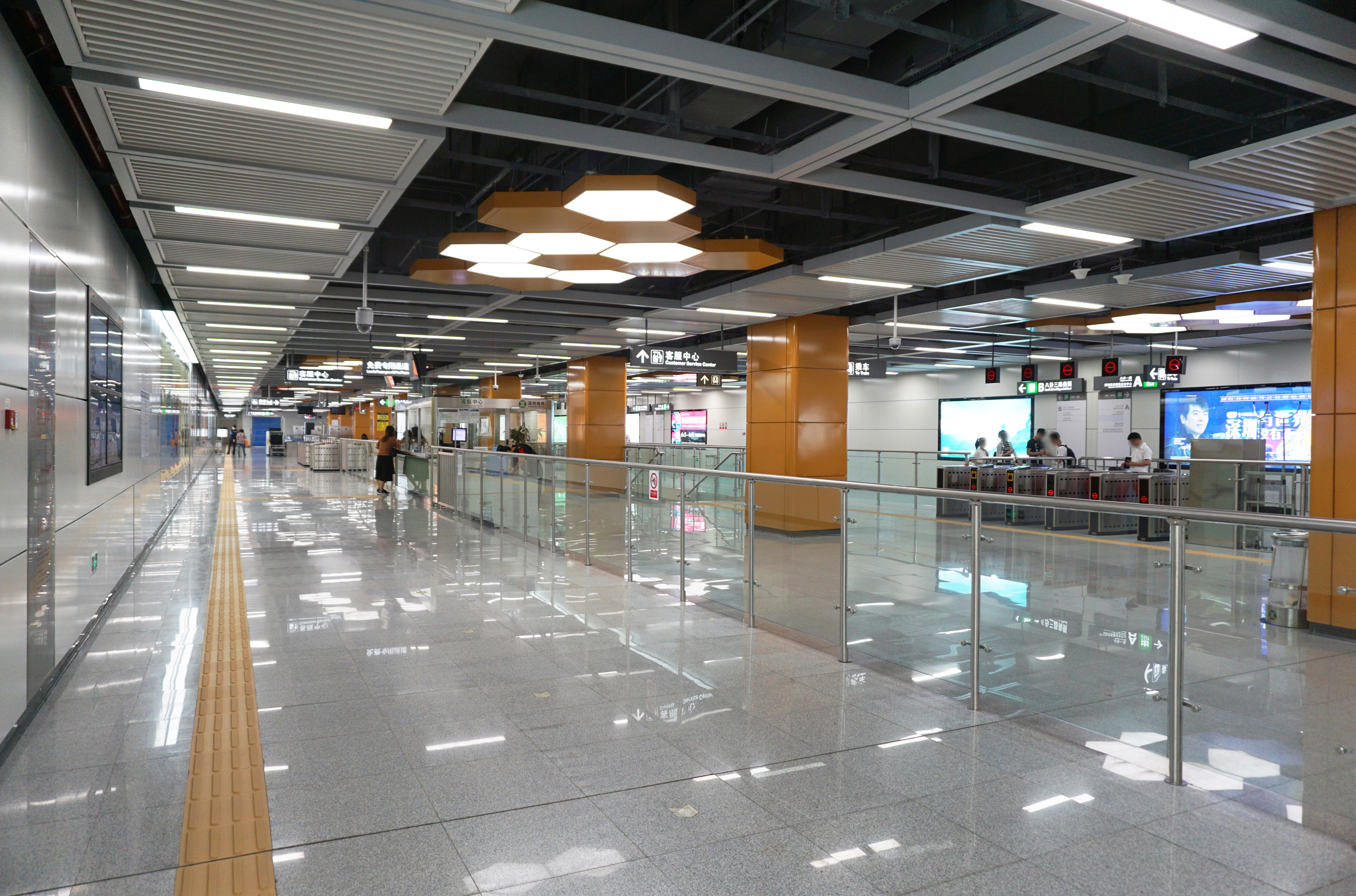 Bagualing Station in Futian District, Shenzhen.